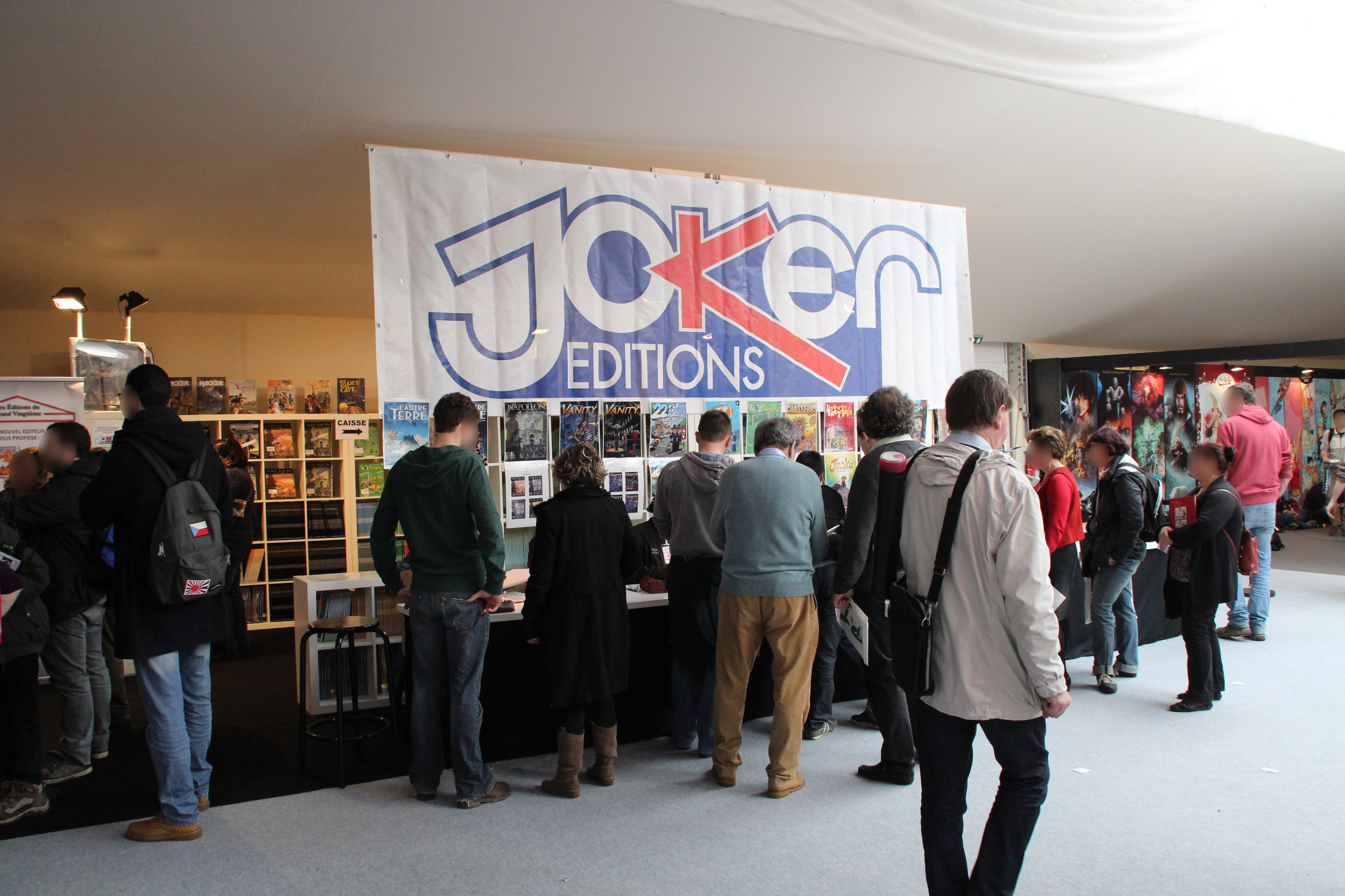 Angoulême International Comics Festival 2013.